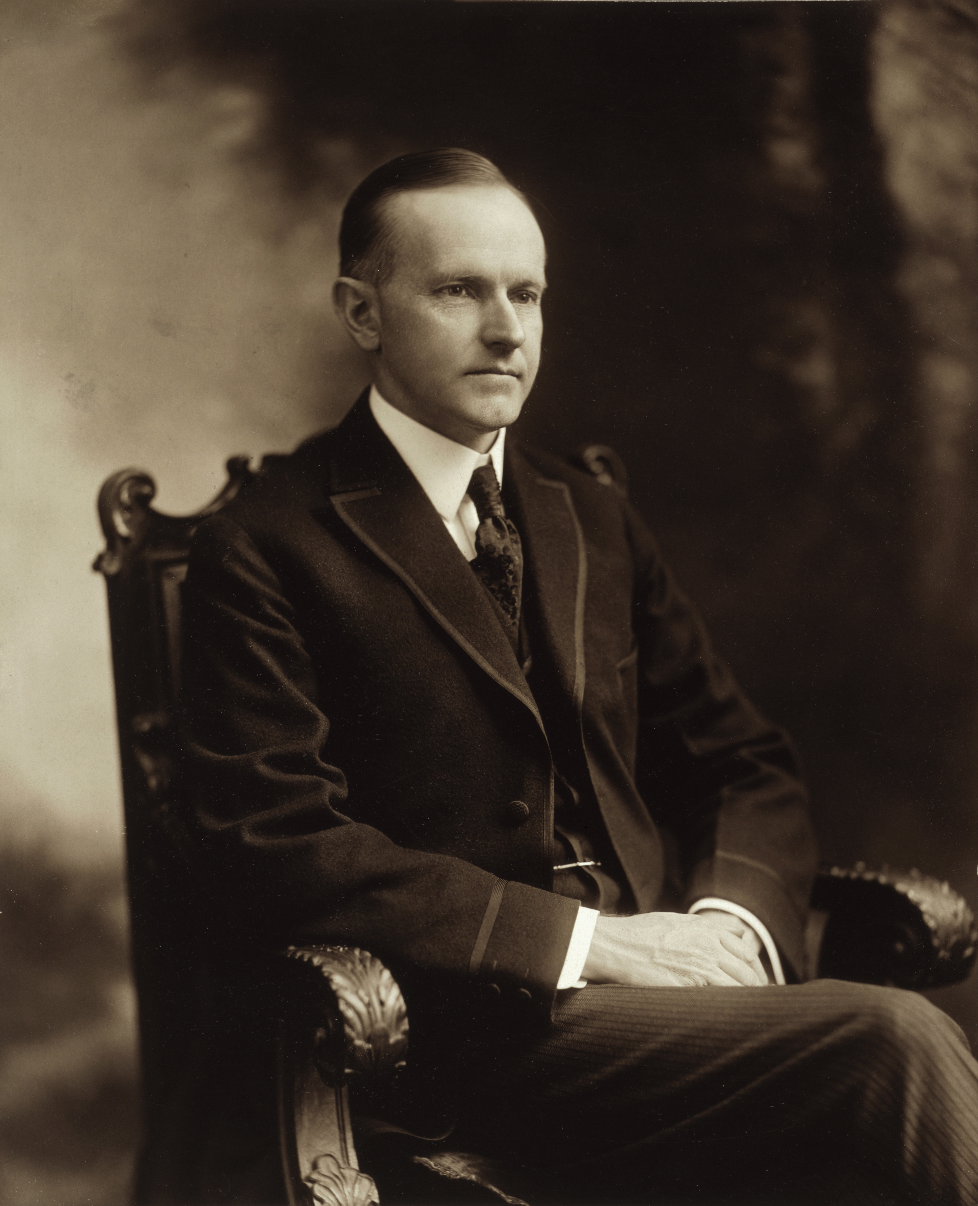 Calvin Coolidge, Governor of Massachusetts